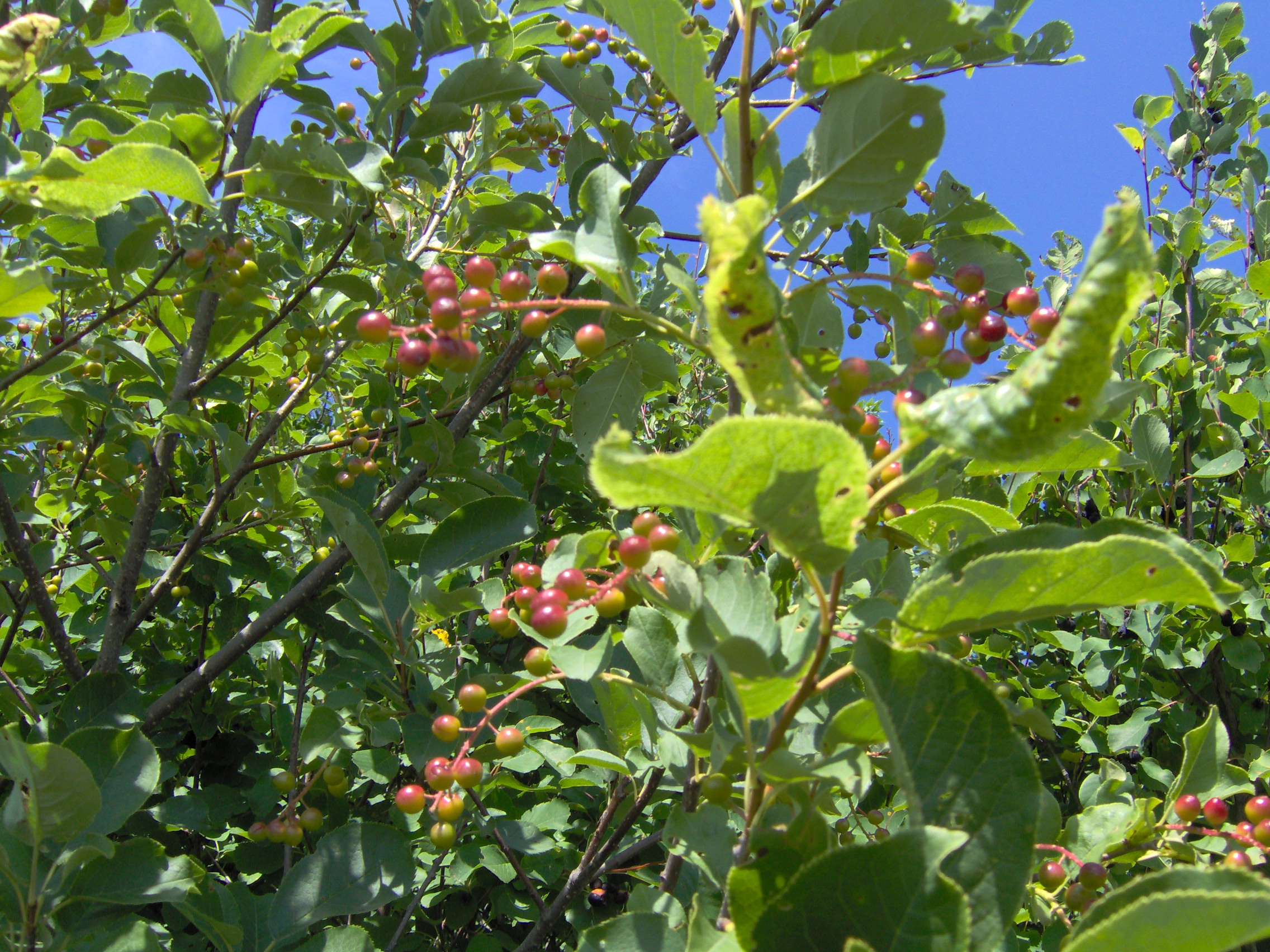 Prunus serotina not quite ripe, ripe colour varies by tree, anywhere from yellow to red to black.